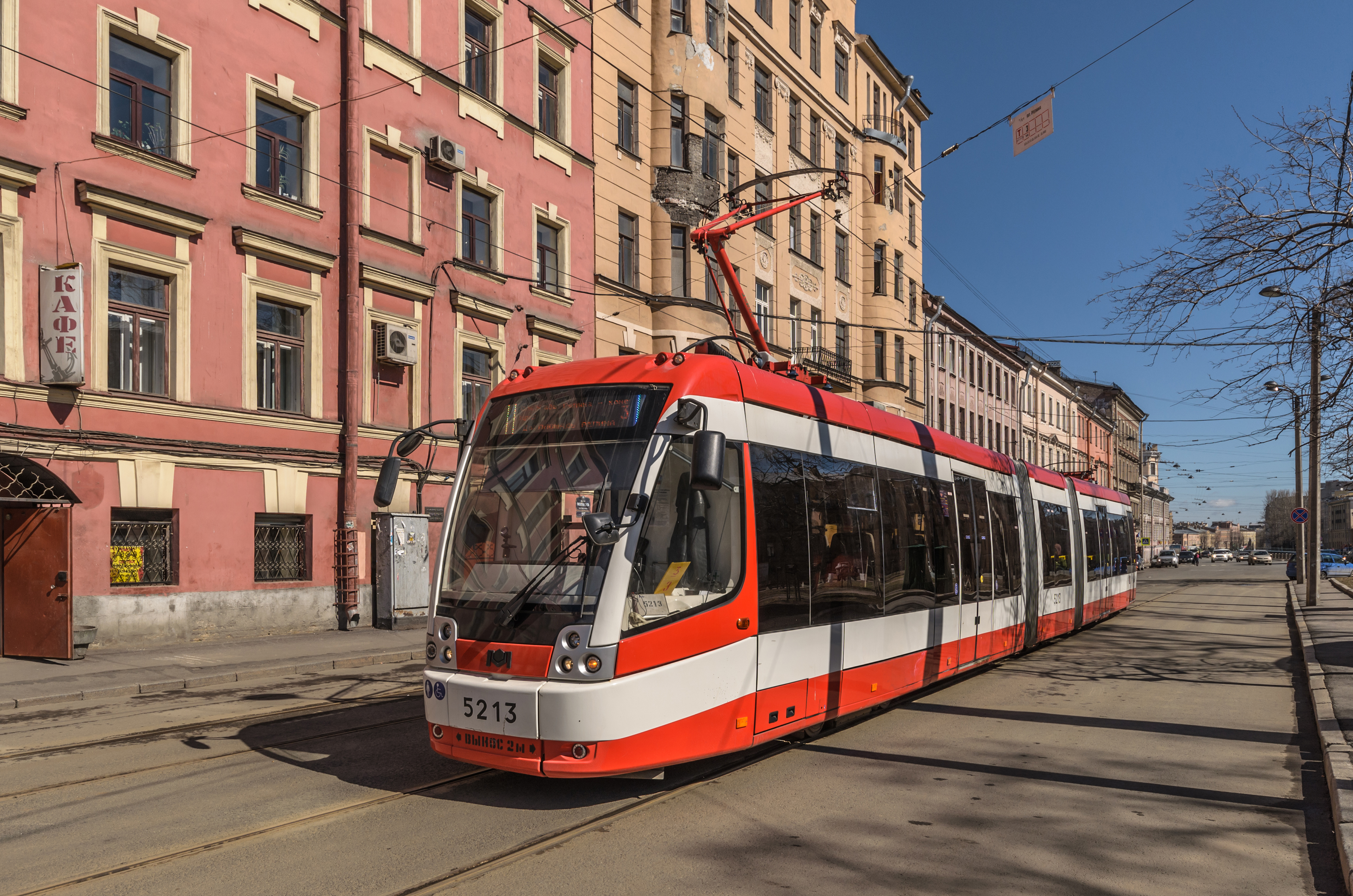 Tram BKM-84300M (AKSM-843) on Repina Square in Saint Petersburg